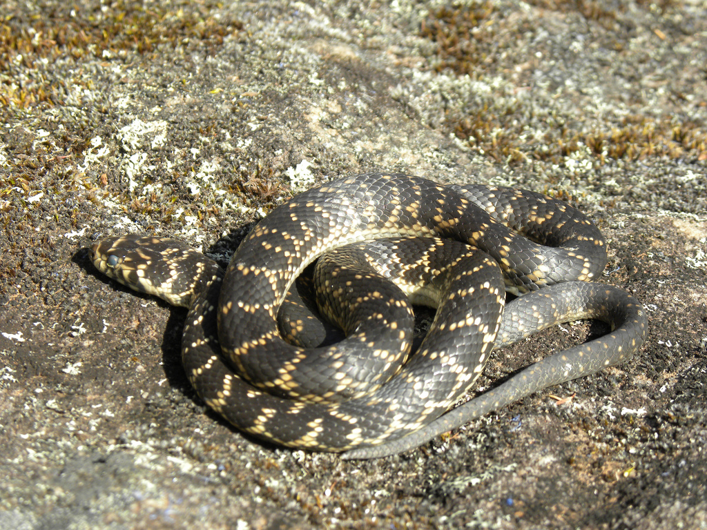 Hoplocephalus bungaroides Broad-Headed Snake A beautiful snake, this one soon to shed.